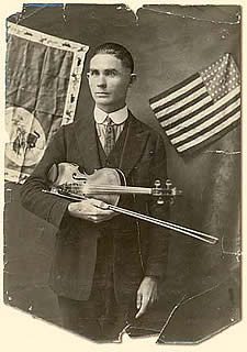 Old time fiddler Eck Robertson; Victor publicity photo or another early take from Robertson, dating back before 1923